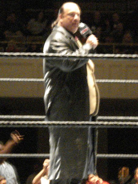 Paul Heyman at an ECW live event. Racine, WI, October 28en:2006. Taken by me.